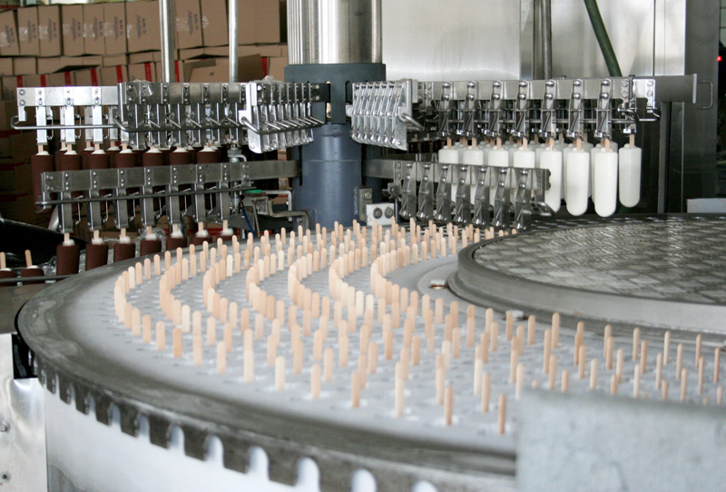 The process production of ice cream on the JSC "Lviv Freezer Factory" TM "LIMO"